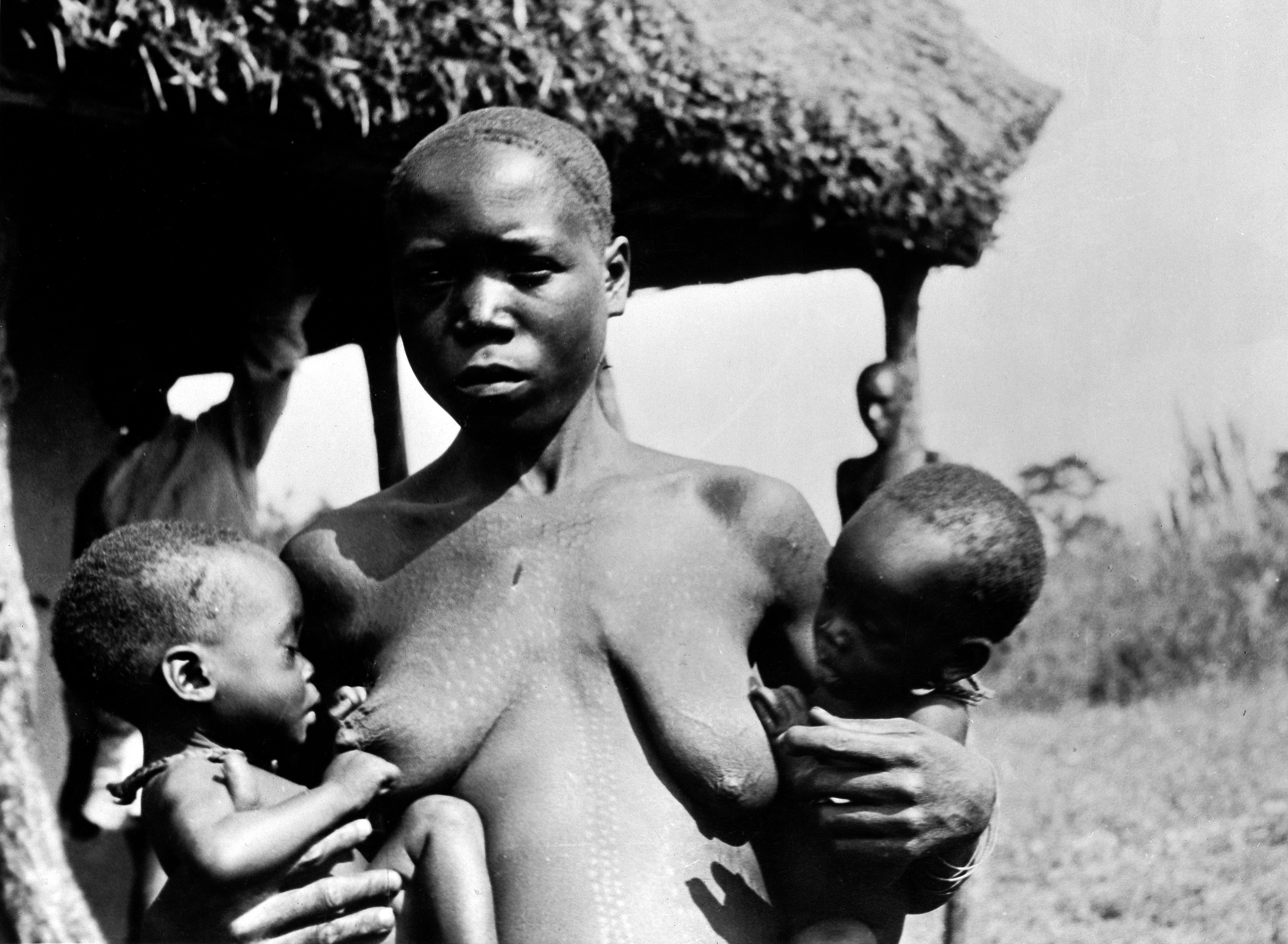 A woman suckling twins, Lango people. Wellcome Images Keywords: breastfeeding; indigenous and non-european medicine; childcare